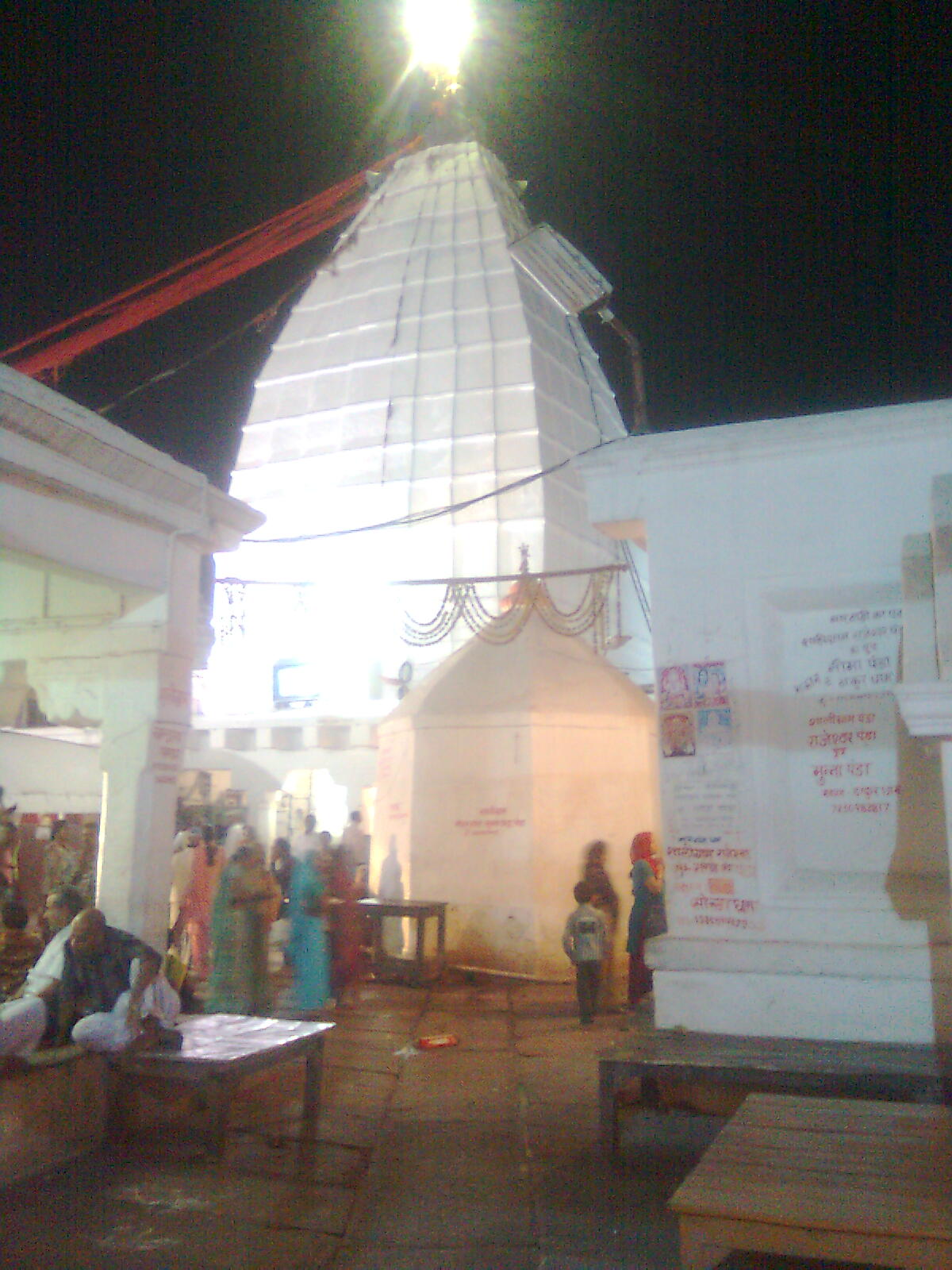 Baidyanath Dham Temple, Deoghar